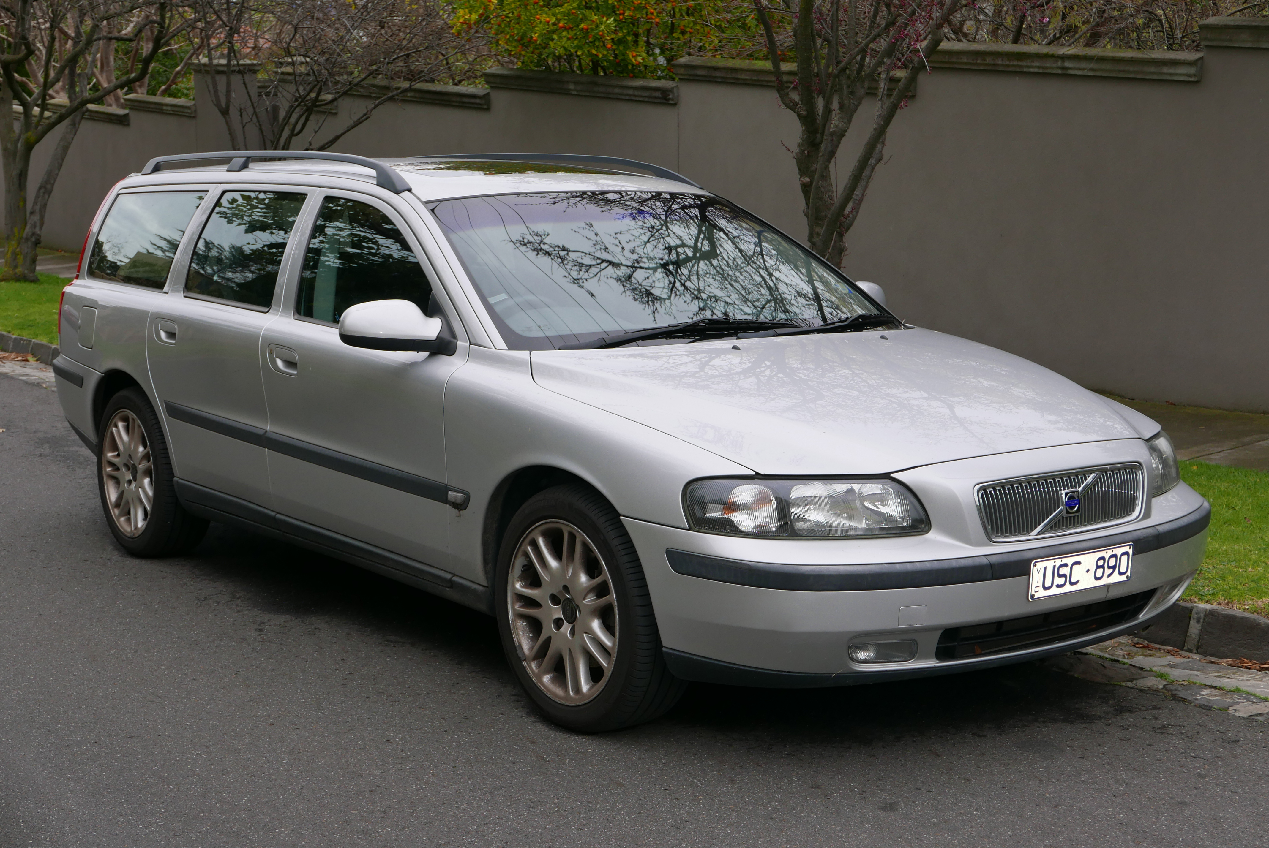 2001 Volvo V70 (MY01) T5 station wagon. Photographed in Kew, Victoria, Australia. Vehicle registration enquiry resultsJurisdictionVictoriaRegistrationUSC890Chassis codeYV1SW53K912087361Engine code2344917Compliance date2001-04Year of manufacture2001